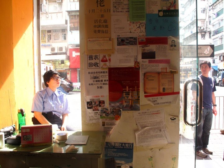 Performance work SeQ-ing for program See Through at Wooferten, Yau Ma Tei, Hong Kong